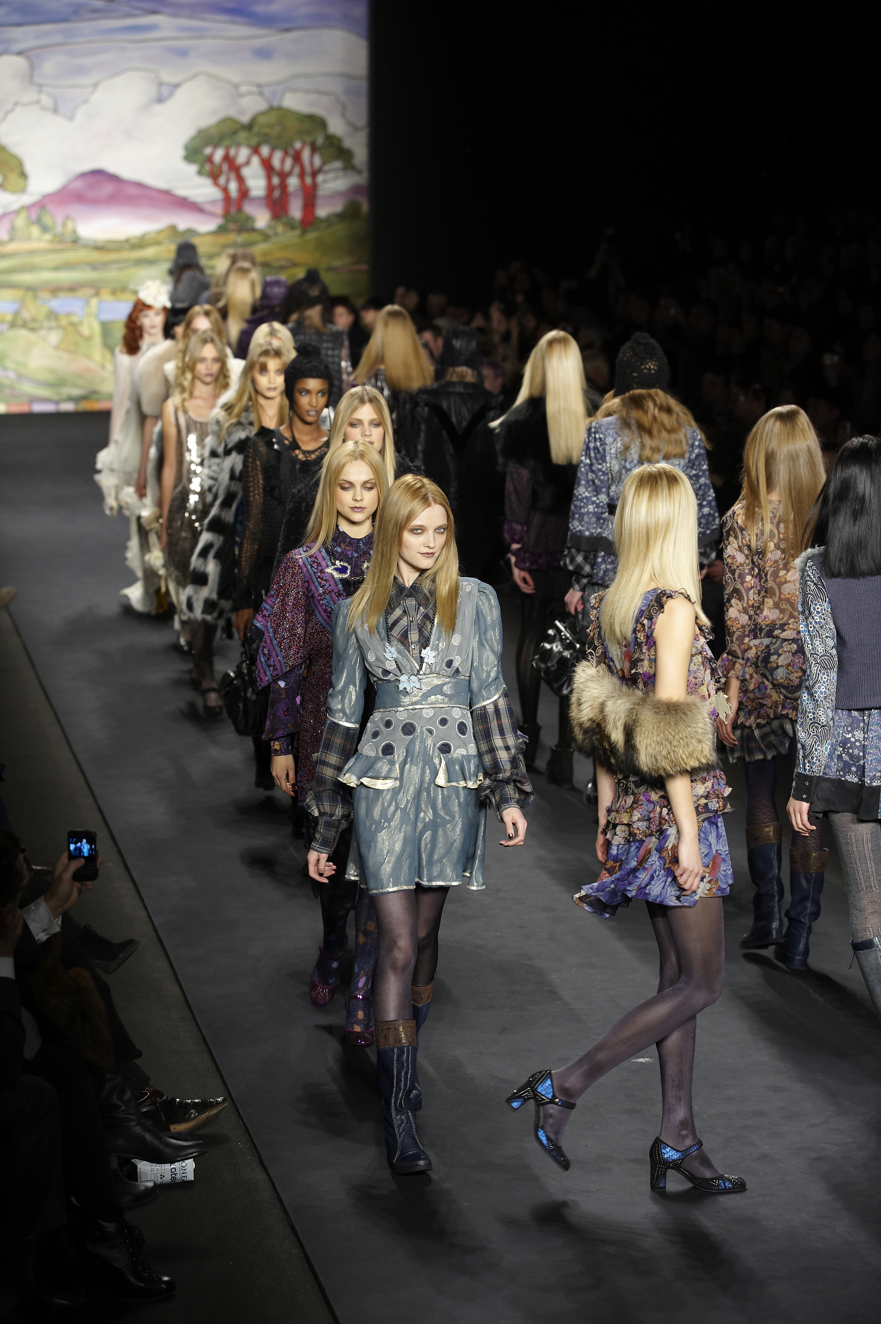 Models take to the runway at the conclusion of the Anna Sui Fall/Winter 2010 show at New York Fashion Week, February 2010.